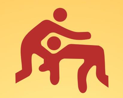 Logo of the Bhartiya Kushti Patrika